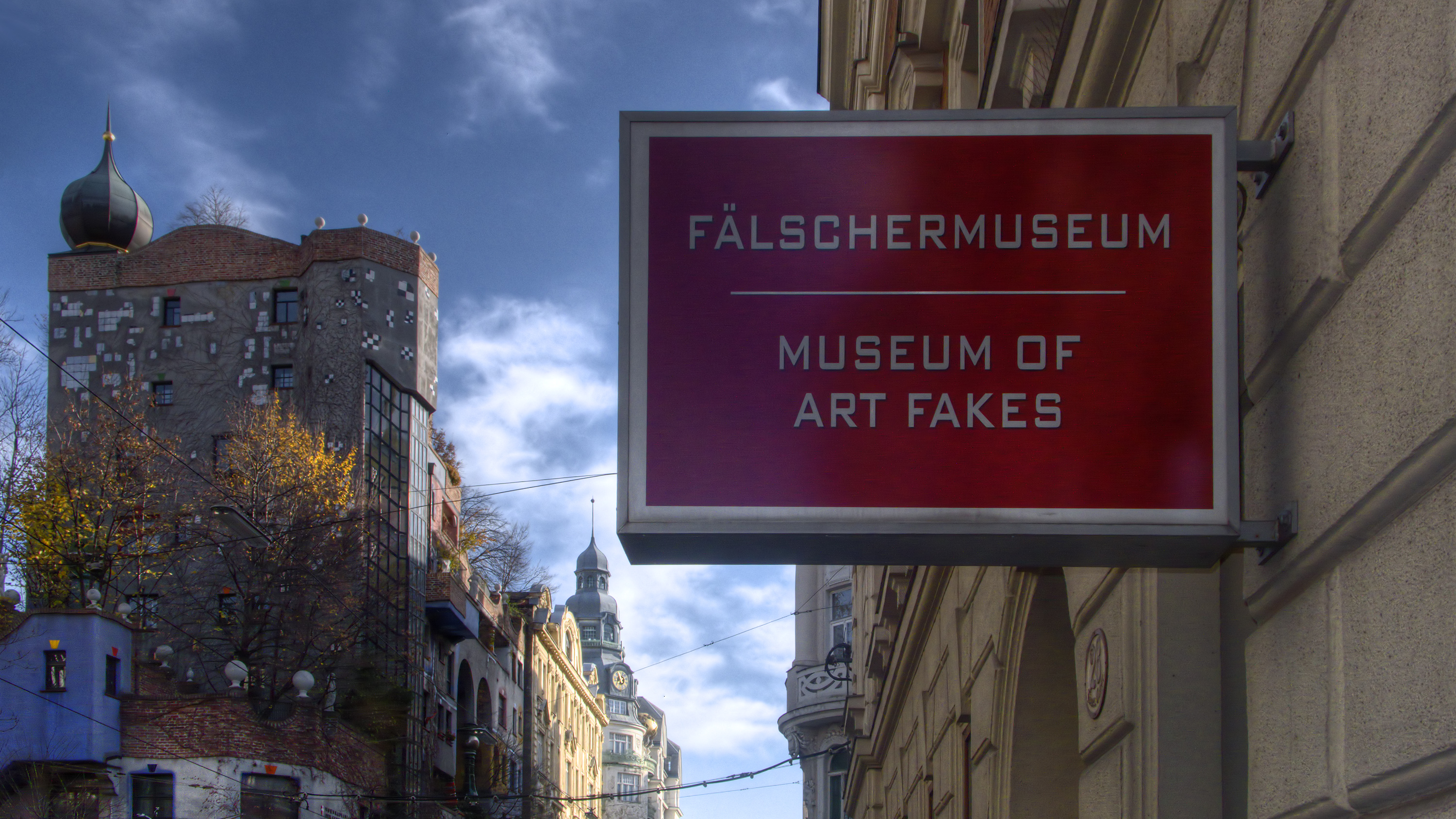 Fälschermuseum (Museum of counterfeit) in Vienna / Landstraße